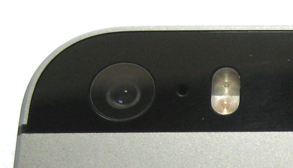 iPhone 5S, camera lens and true tone flash